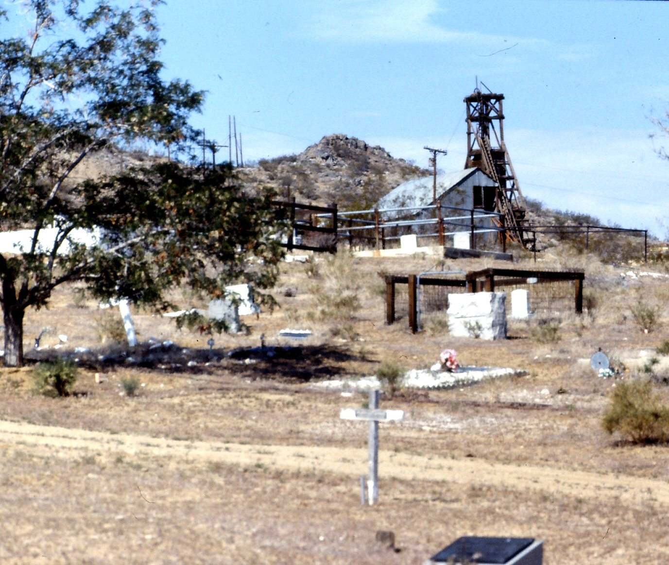 (i in a multiple picture set) Johannesburg was founded to support mining operation at Randsburg, providing rail access to ship out the gold ore. During the first half of the 20th Century, the Rand Mining District was the principal gold producing region of California. Activity centered around the Yellow Aster Mine, discovered in 1894. This picture of the cemetery is poigent in that it shows the resting place of some of the people who lived there, now at rest in front of an old mine, now dormant.